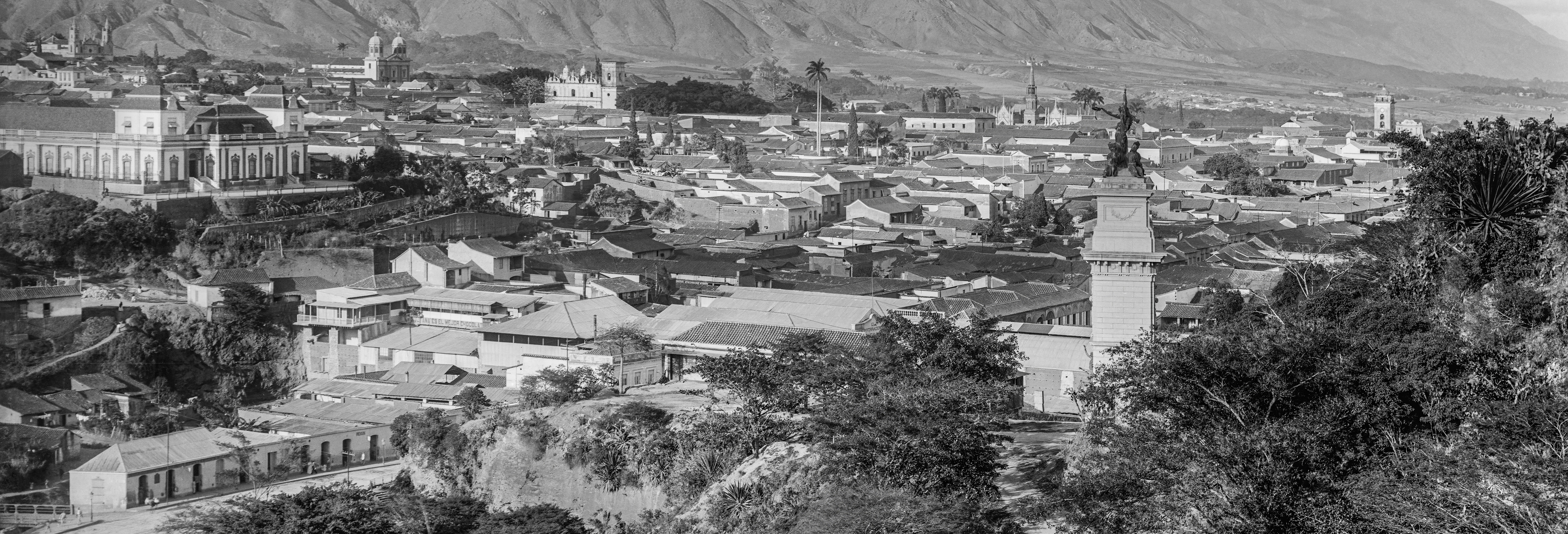 Caracas, Venezuela